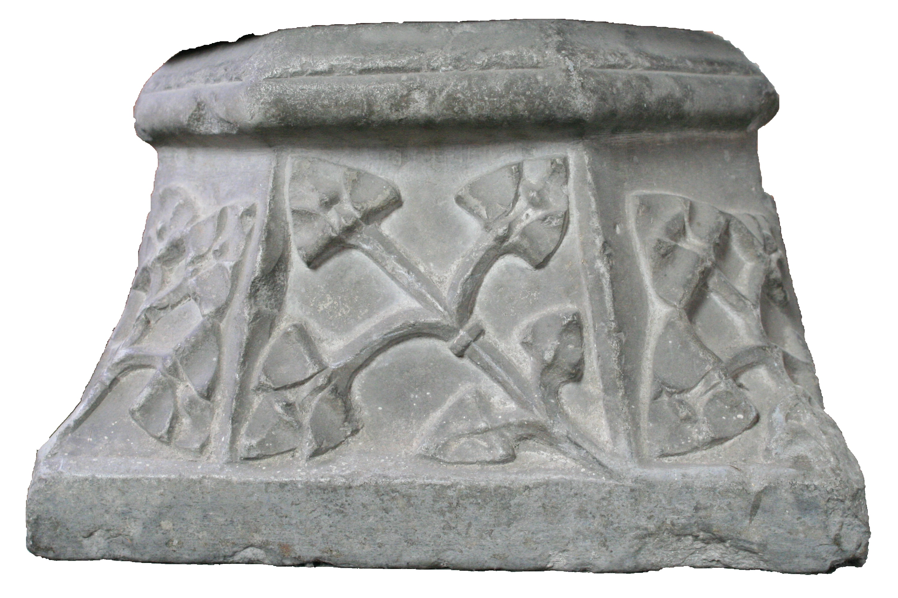 Clonard, County Meath, Ireland Base of baptismal font from the 15th or 16th century at the Church of St. Finian in Clonard.